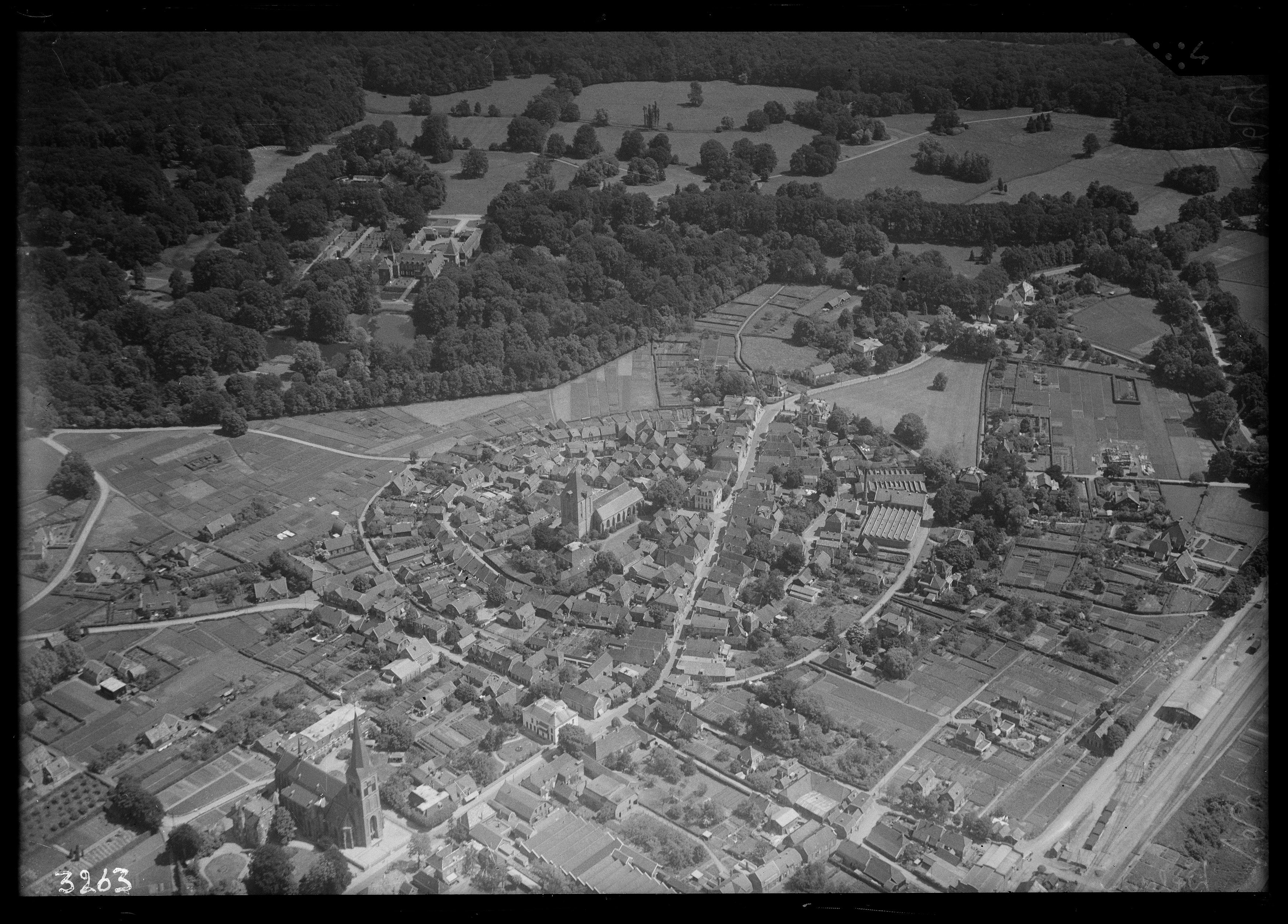 Aerial photograph of Delden, The Netherlands